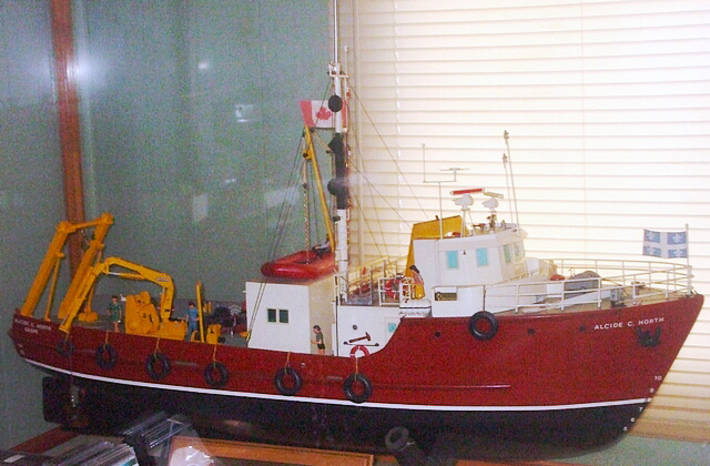 Hand built Alcide C.Horth ship, scale 1/24 Scale ship version 1992 color...